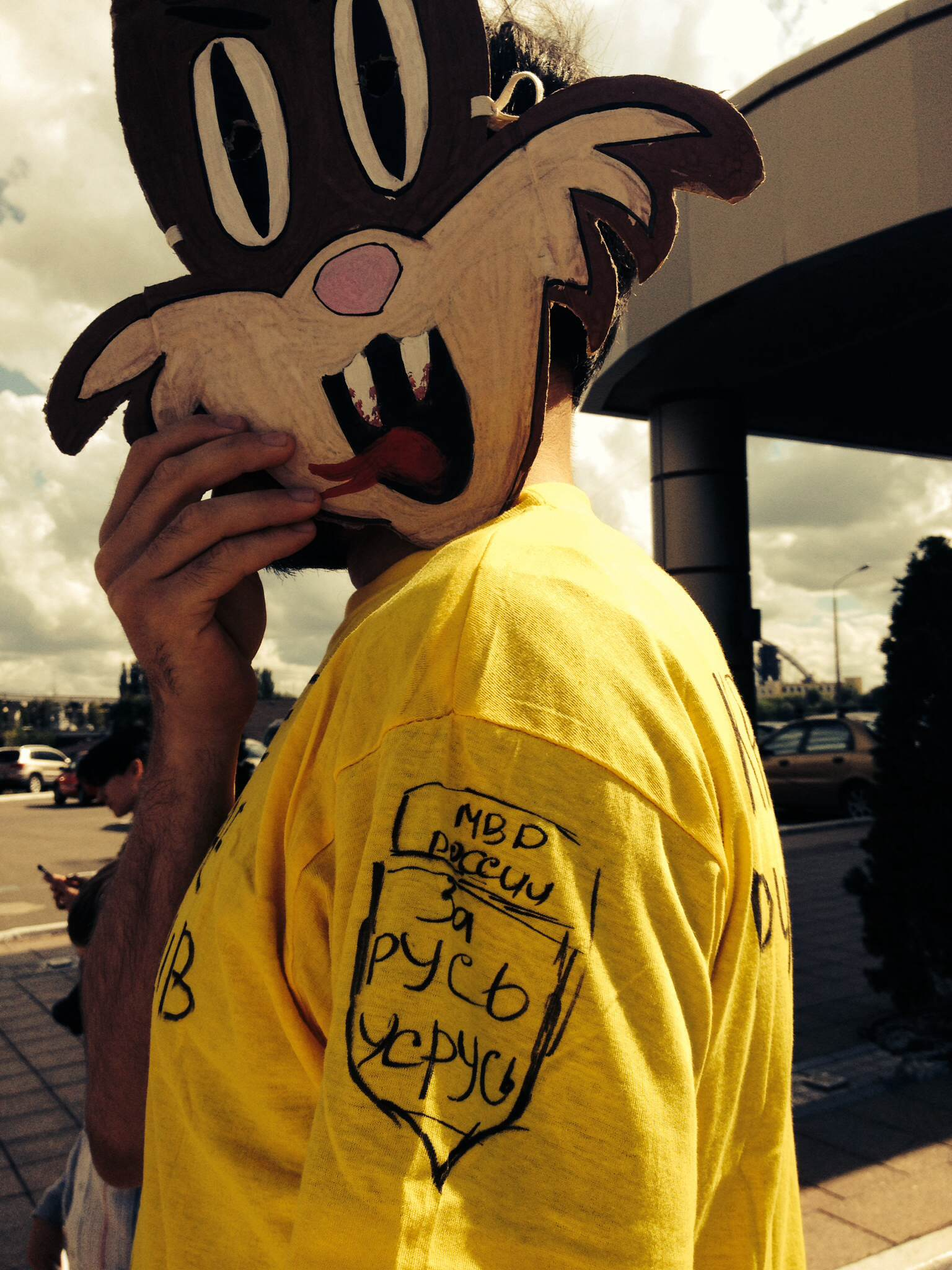 Rabbit «Nesquik», supporter of Russia, on action of Vidsich in Kyiv, Ukraine.